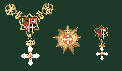 Lithuanian order of Vitautas the Great